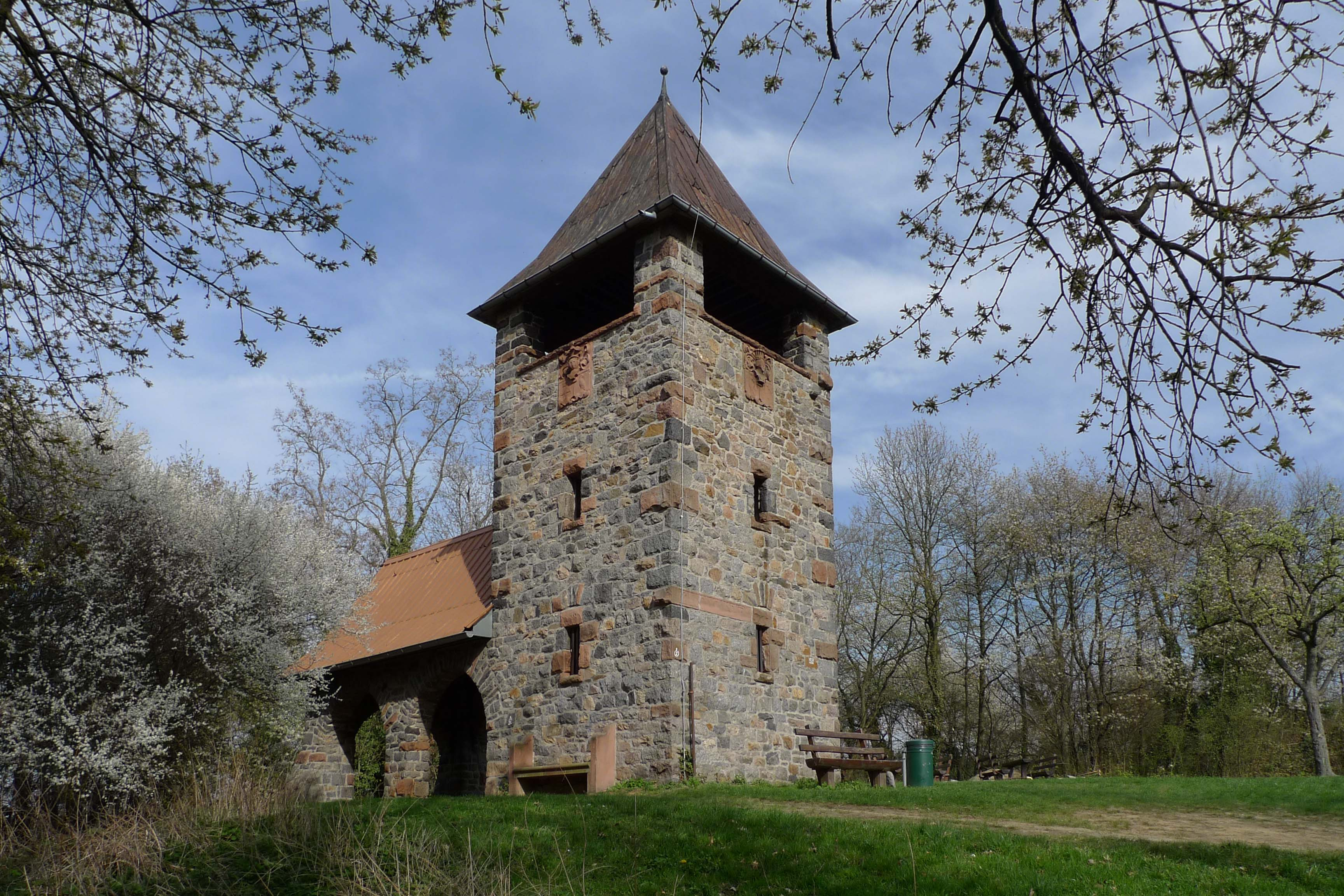 Former look-out called "Blaues Türmchen" or "Luginsland"